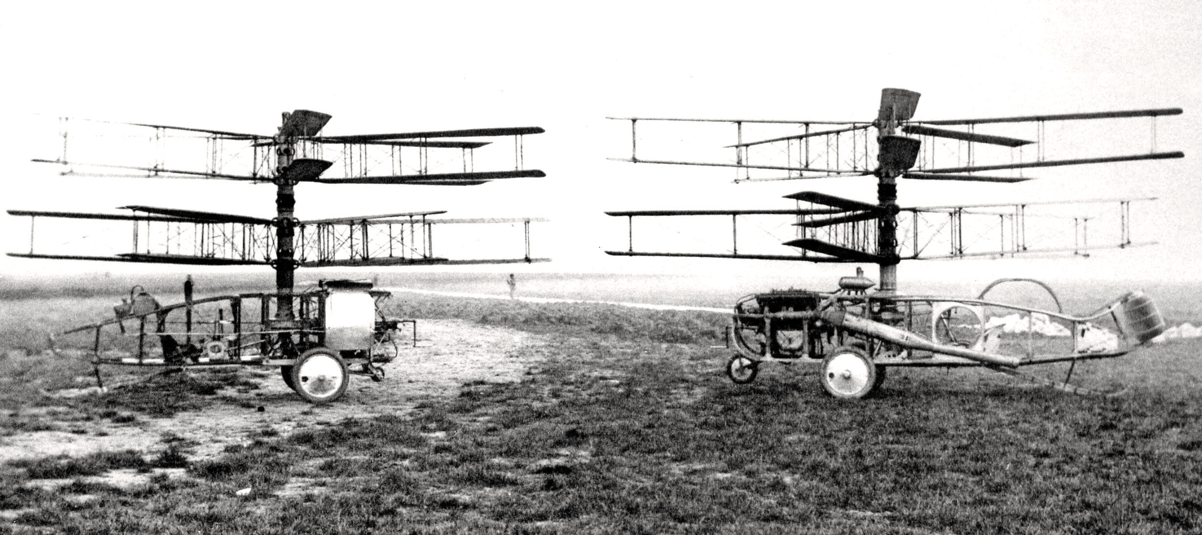 Pescara helicopers 2R (1921) and 2F (1923)